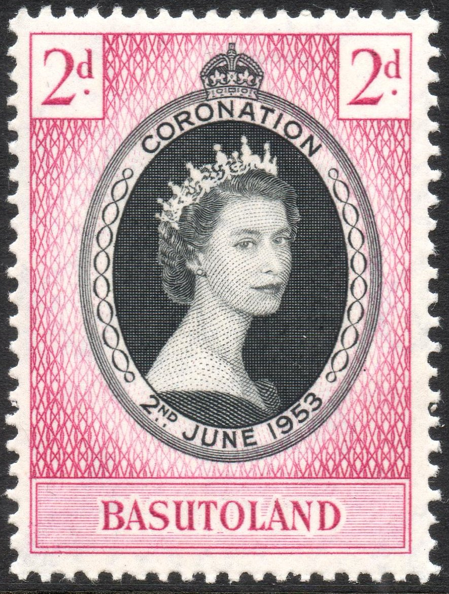 1953 stamp of Basutoland.